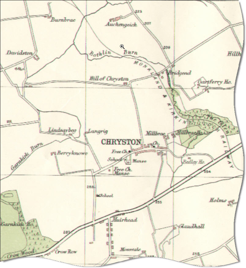 Map of Cryston in 1923